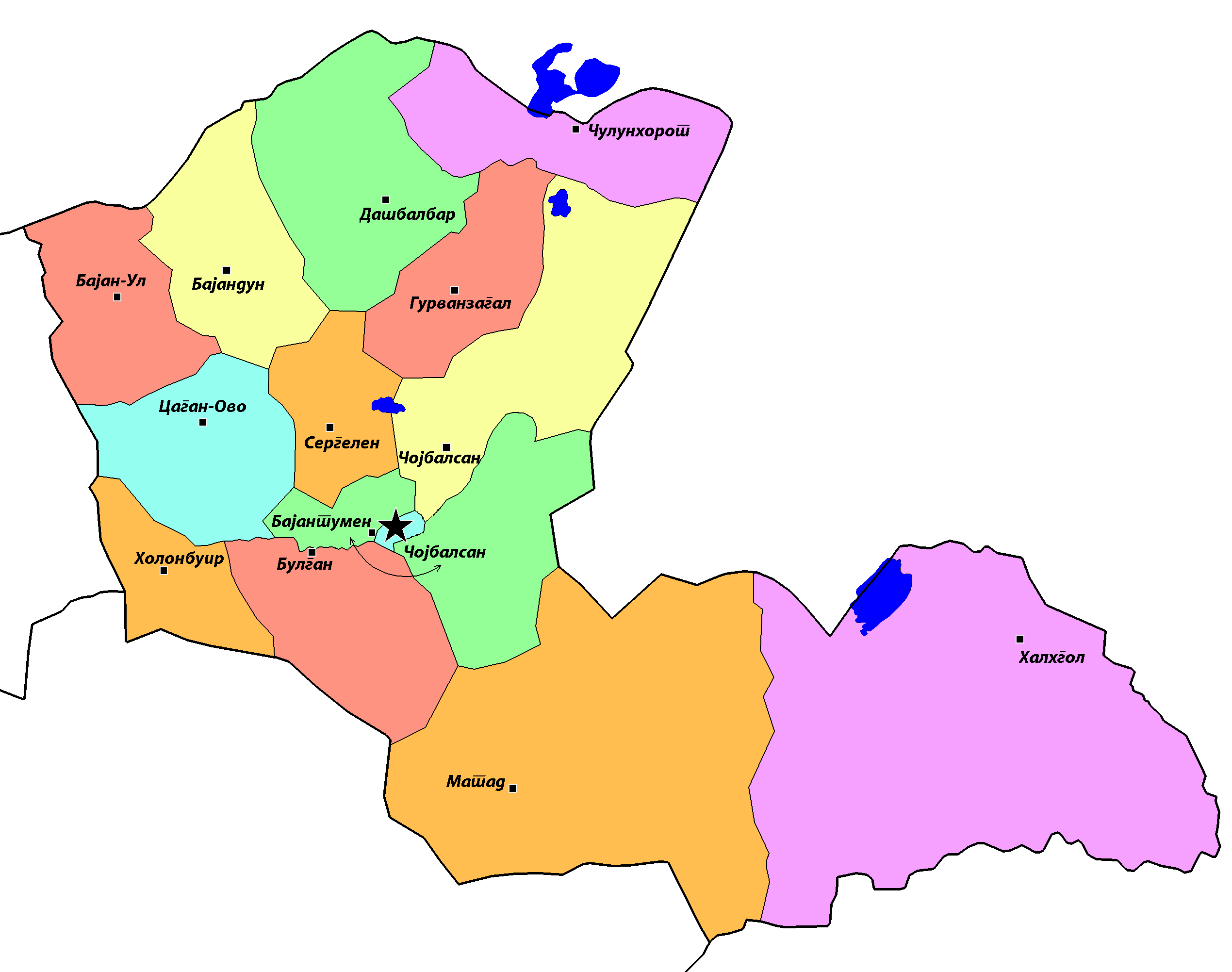 Translated map of Dornod Sum on Macedonian language